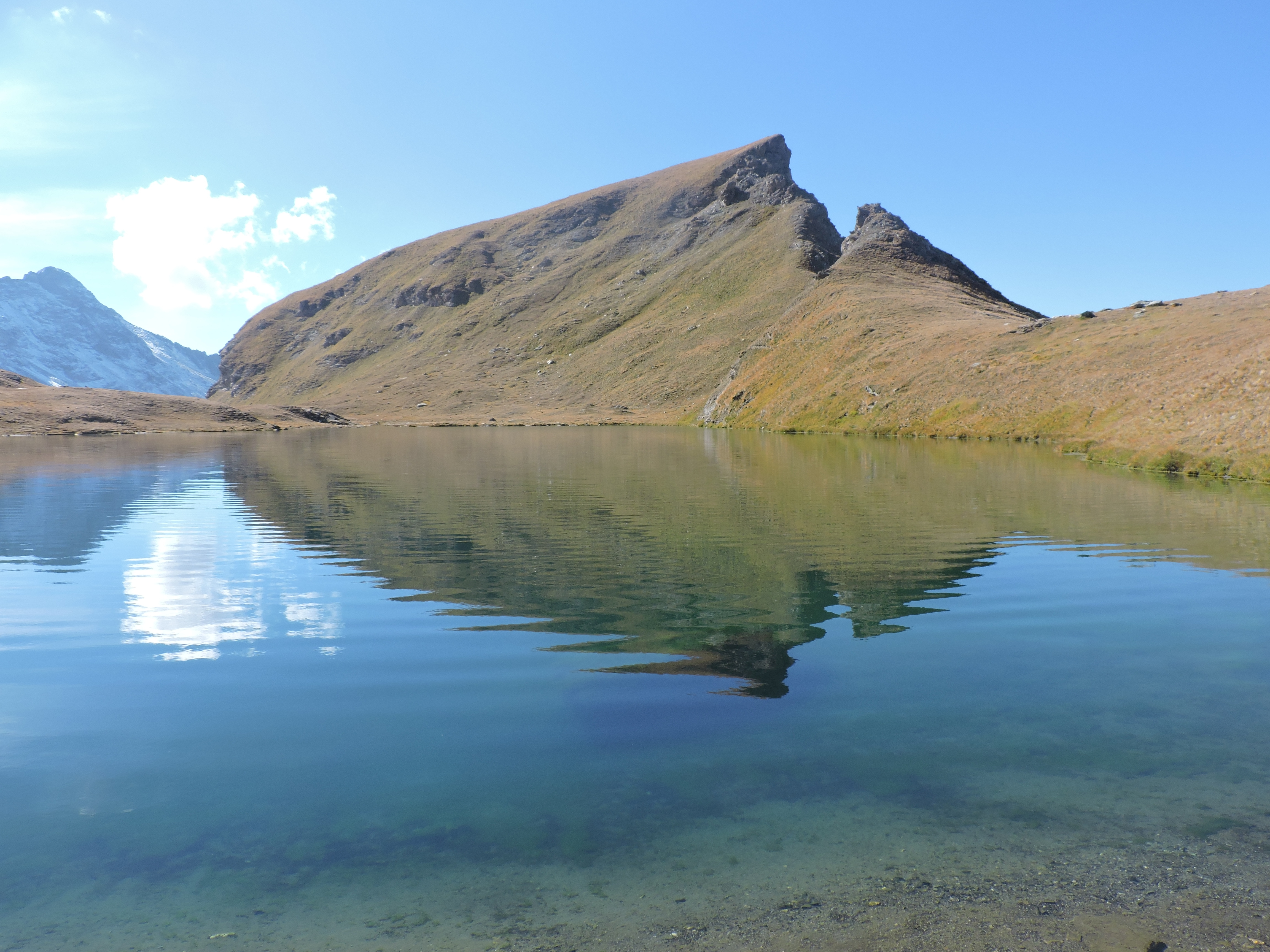 Lago Perrin (Pennine Alps, Italy) and mountain at 2771 m by the Tecnical Map of Regione Valle d'Aosta